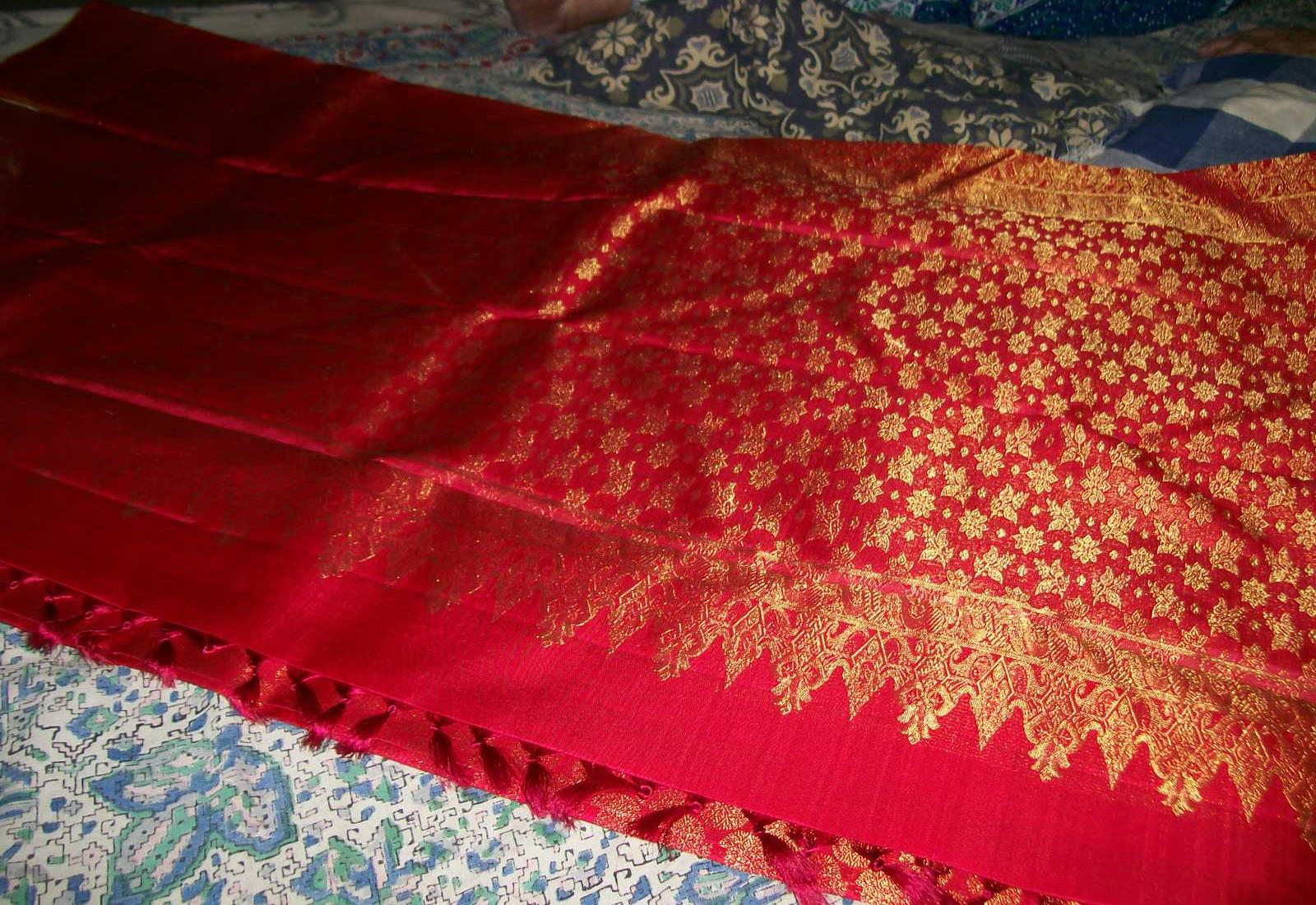 A typical Mangalorean Catholic sado worn by the bride during a Mangalorean Catholic wedding.